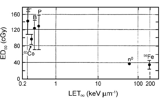 Figure 6-7. LET dependence of RBE of radiation in producing emesis or retching in a ferret. B = bremstrahlung; e– = electrons; P = protons; 60Co = cobalt gamma rays; n0 = neutrons; and 56Fe = iron. Other information Page 204